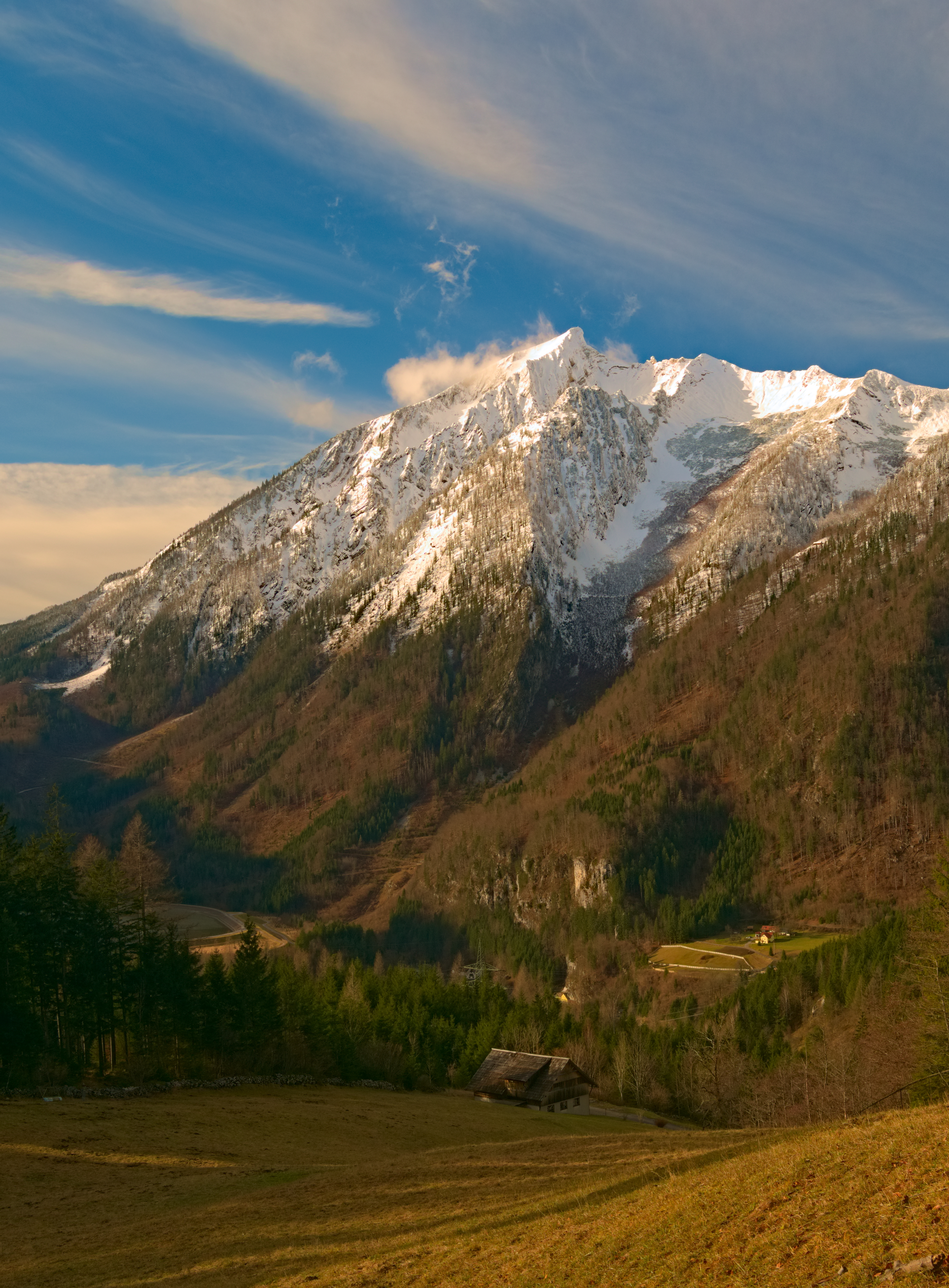 Tamischbachturm with freshly fallen snow, seen from the East (Hieflau Kirchbichl).